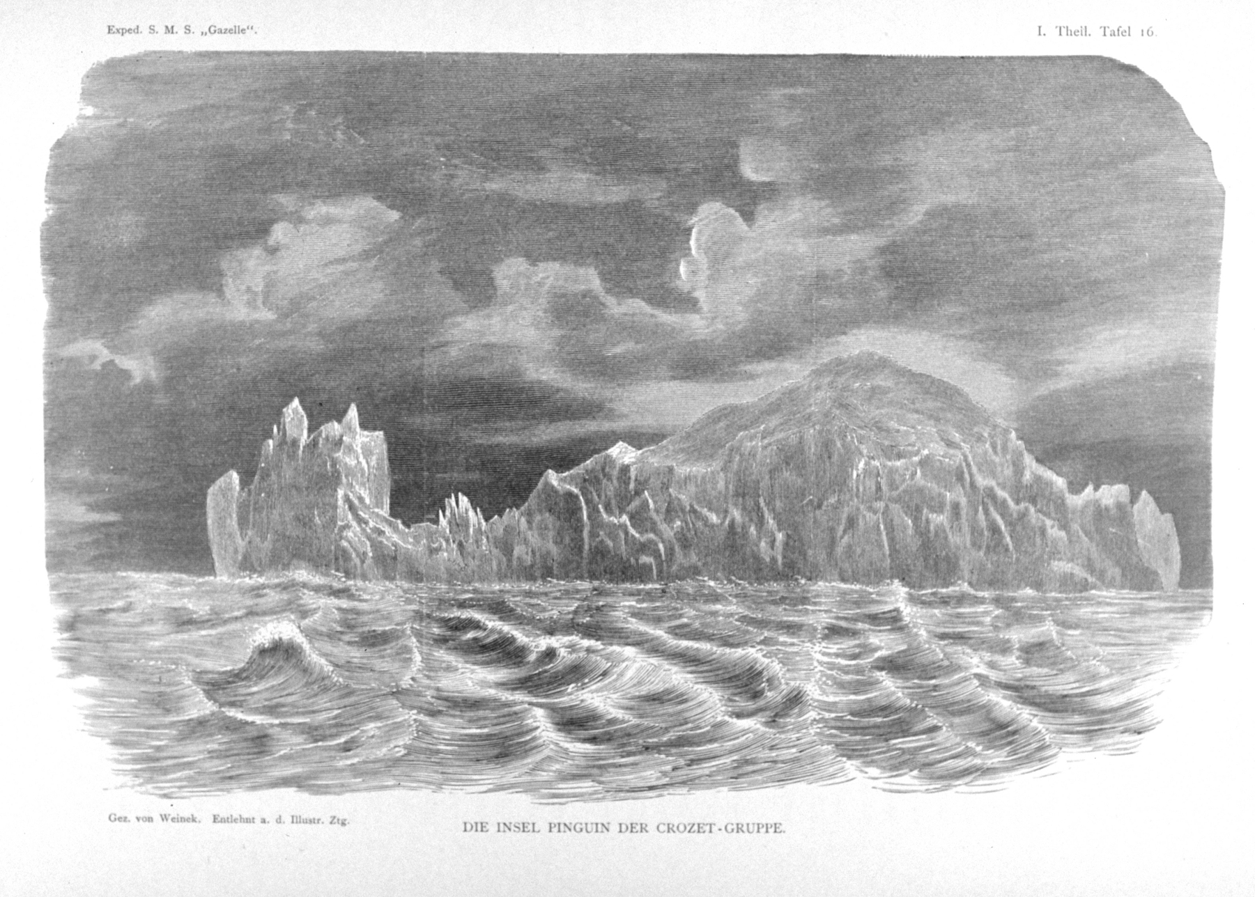 Drawing of Penguin Island, Crozet Islands, Indian Ocean